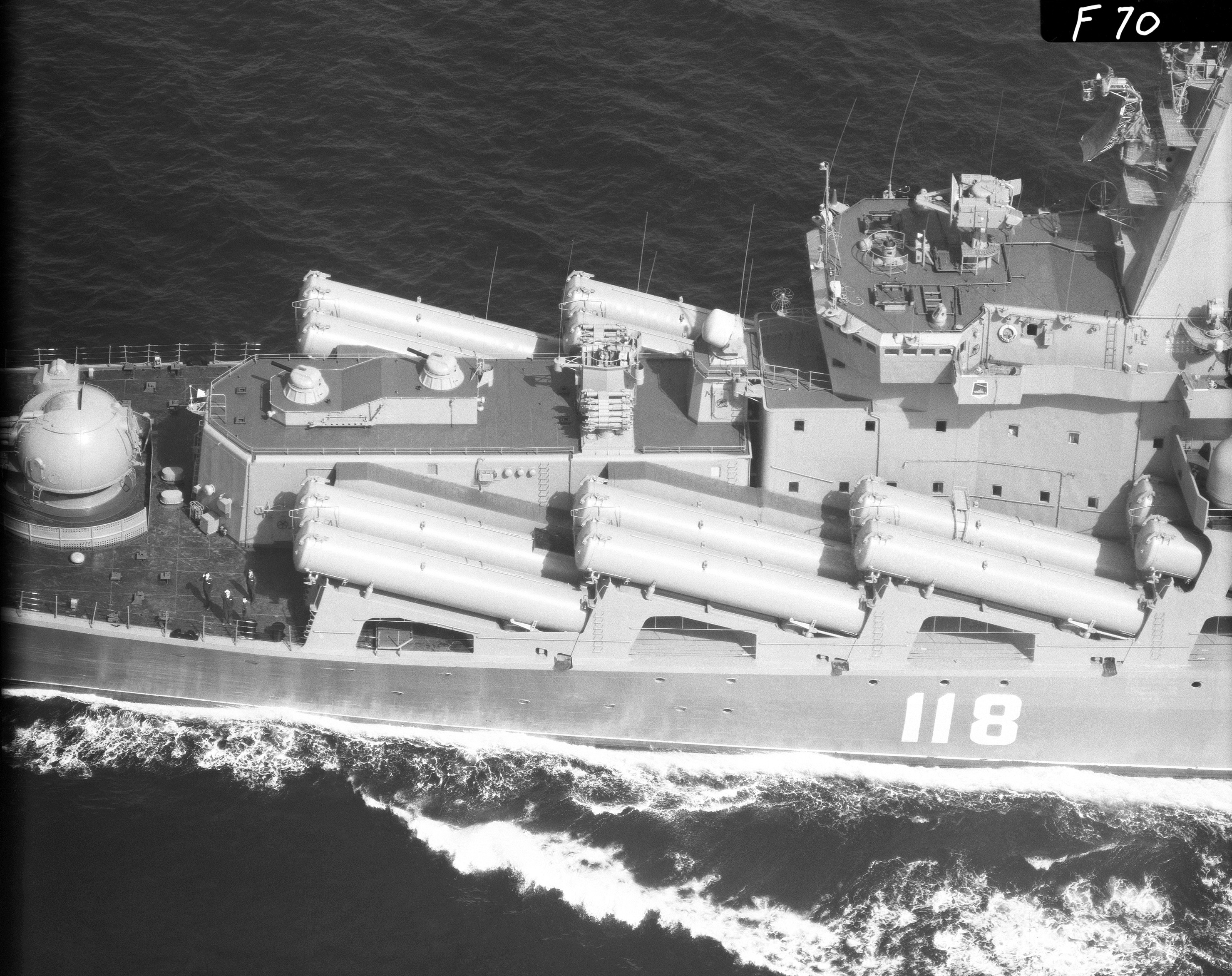 A partial aerial port side view of the Soviet Slava class guided missile cruiser MARSHAL USTINOV underway, showing a portion of the forward twin 130 mm/70-caliber gun mount and six of the ship's eight pairs of twin SS-N-12 Sandbox surface-to-surface missiles